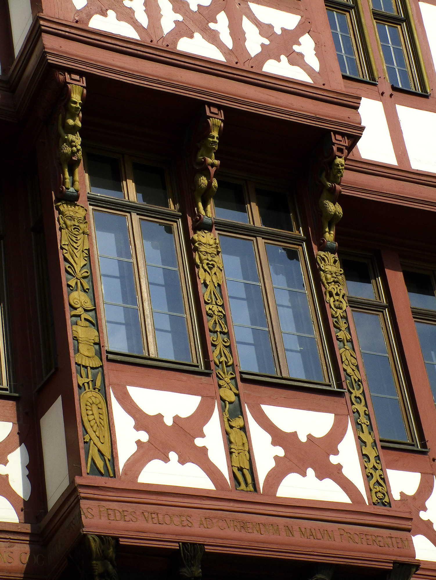 Frankfurt on the Main: Town-house Großer Engel (Great Angel), carved decorations of the first floor of the bay as seen from the Römerberg